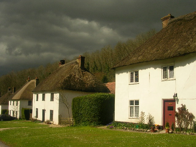 Thatched Cottages at Milton Abbas.